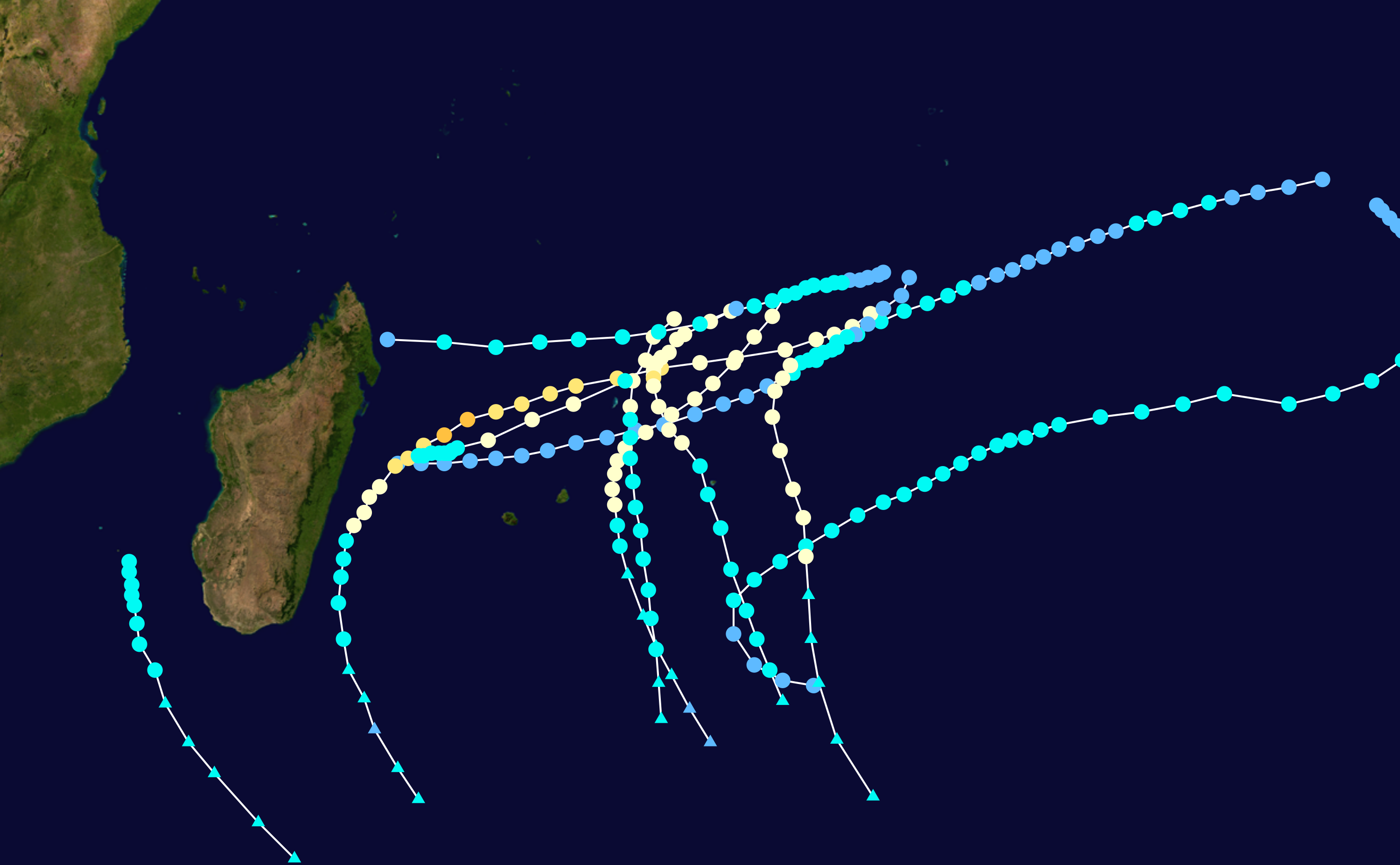 This map shows the tracks of all tropical cyclones in the 1962-63 South-West Indian Ocean cyclone season. The points show the location of each storm at 6-hour intervals. The colour represents the storm's maximum sustained wind speeds as classified in the Saffir-Simpson Hurricane Scale (see below), and the shape of the data points represent the type of the storm. Saffir–Simpson scale Tropical depression≤38 mph≤62 km/h Category 3111–129 mph178–208 km/h Tropical storm39–73 mph63–118 km/h Category 4130–156 mph209–251 km/h Category 174–95 mph119–153 km/h Category 5≥157 mph≥252 km/h Category 296–110 mph154–177 km/h Unknown Storm typeTropical cycloneSubtropical cycloneExtratropical cyclone / Remnant low / Tropical disturbance